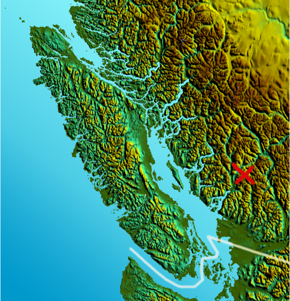 Based on 578px-Vancouver_Island-relief.png which is in Wikimedia Commons. The "X" marks the location of Garibaldi Lake on the southwestern mainland of British Columbia.